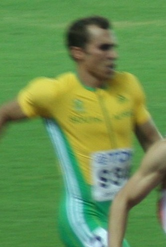 World Athletics Championships 2007 in Osaka: Pieter de Villiers